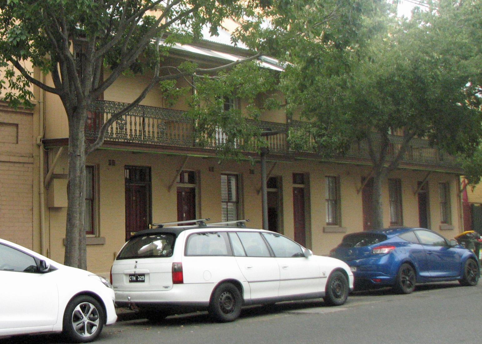 43-40 Kent Street, Millers Point, NSW is listed on the New South Wales Heritage Register